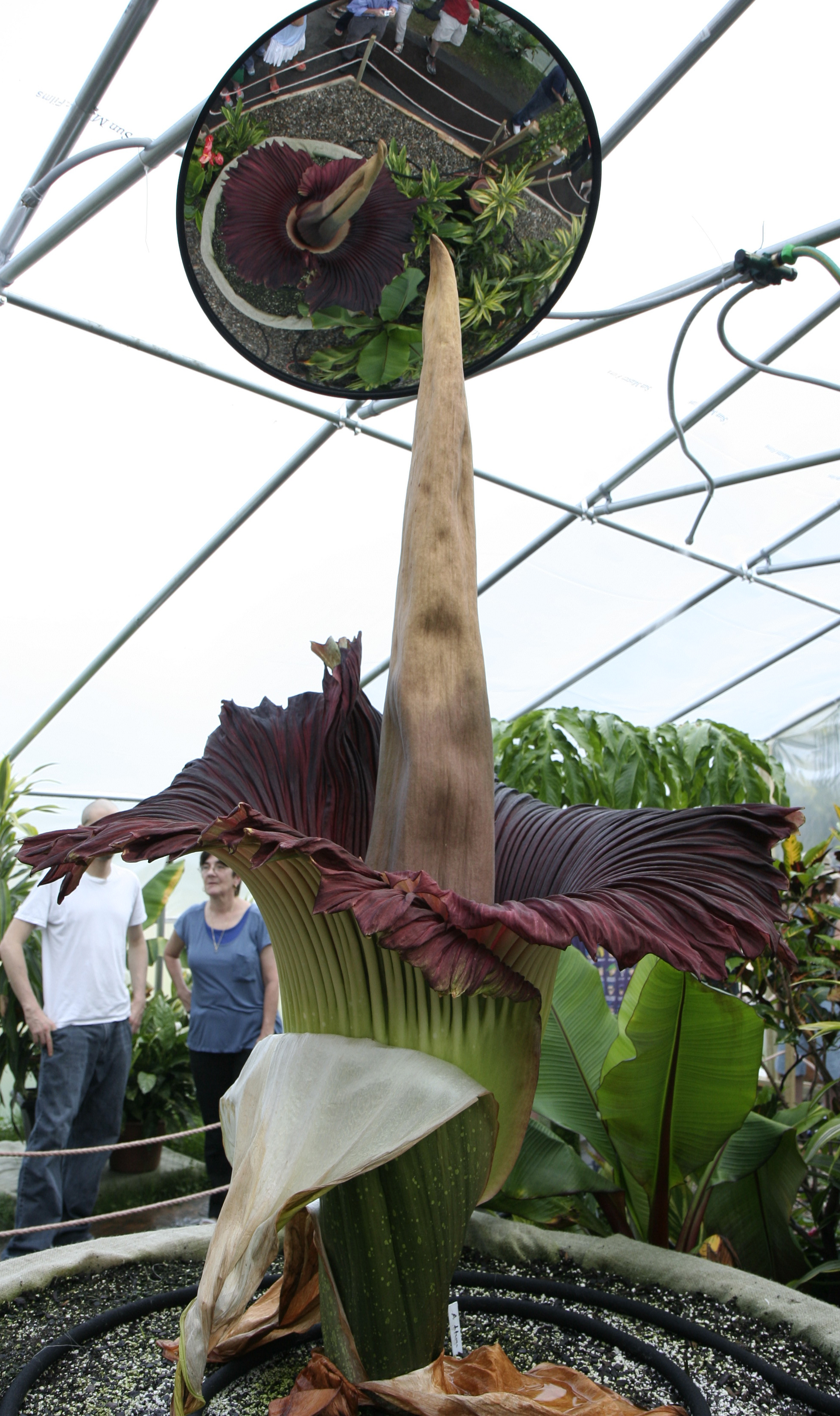 Amorphophallus titanum Morticia, Franklin Park Zoo, Boston MA USA, June 20 2012.